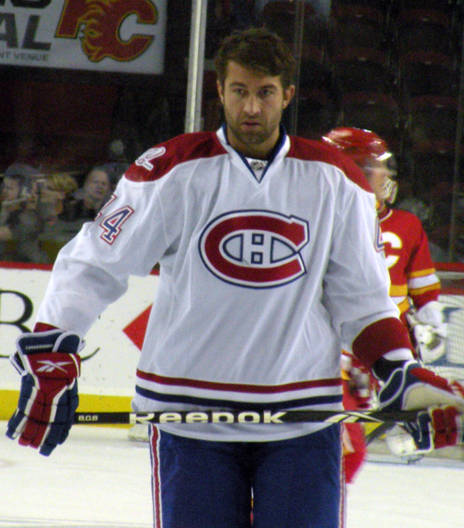 Montreal Canadiens defenceman Roman Hamrlik during warm-up prior to a National Hockey League game against the Calgary Flames, in Calgary.